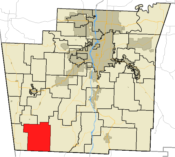 This is a map of Washington County, Arkansas which highlights the location of Boston Township.